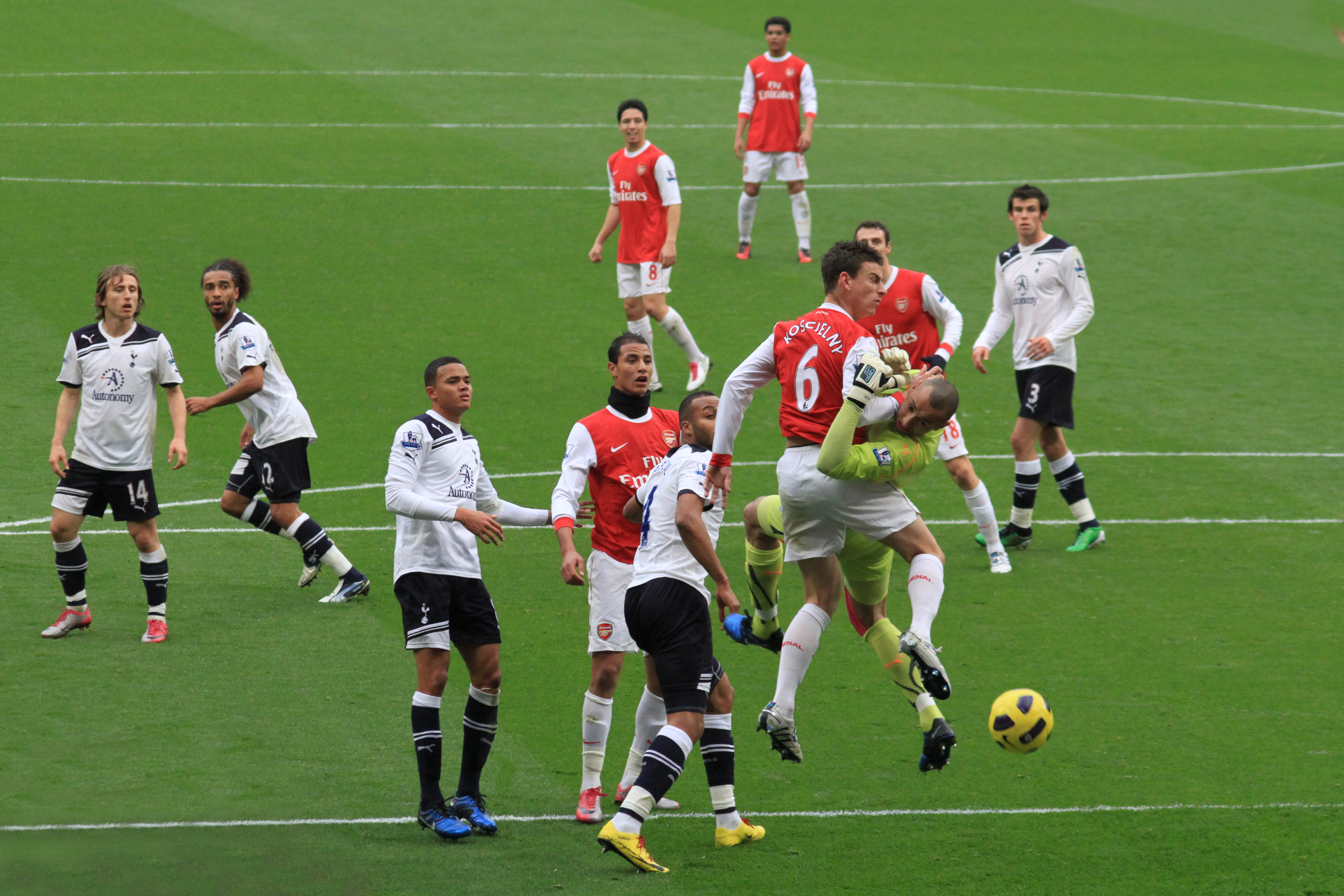 Laurent Koscielny (6) of Arsenal F.C. clashes with Heurelho Gomes of Tottenham Hotspur F.C. in November 2010.